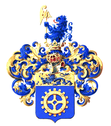 Coat of Arms of family Melnikow